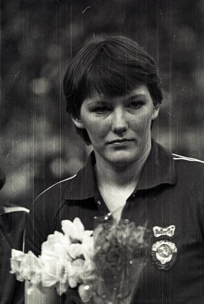 Valentina Popova at awarding ceremony of European Championship-1984 in Moscow